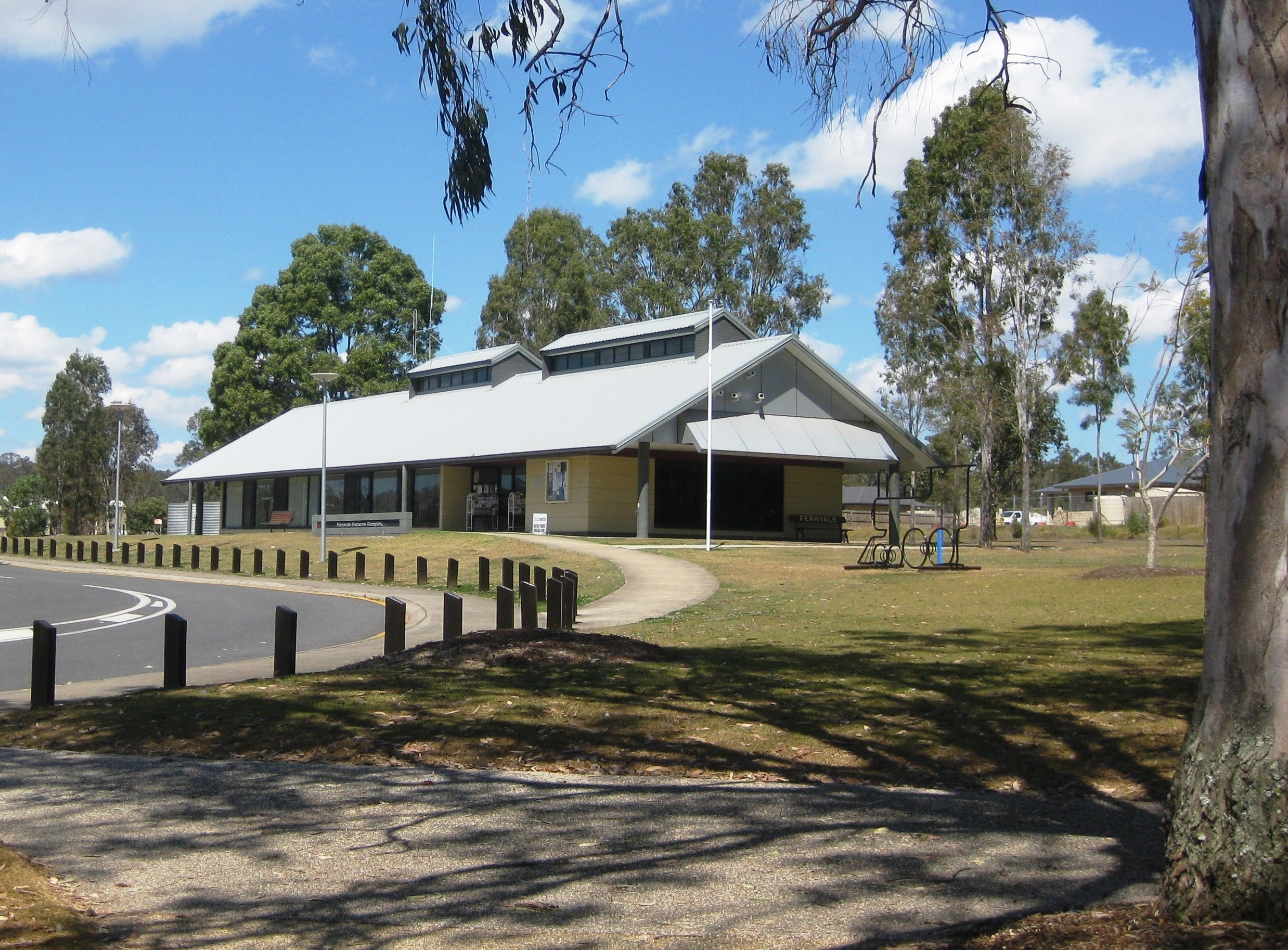 Fernvale Futures Complex viewed from Fernvale Memorial Park